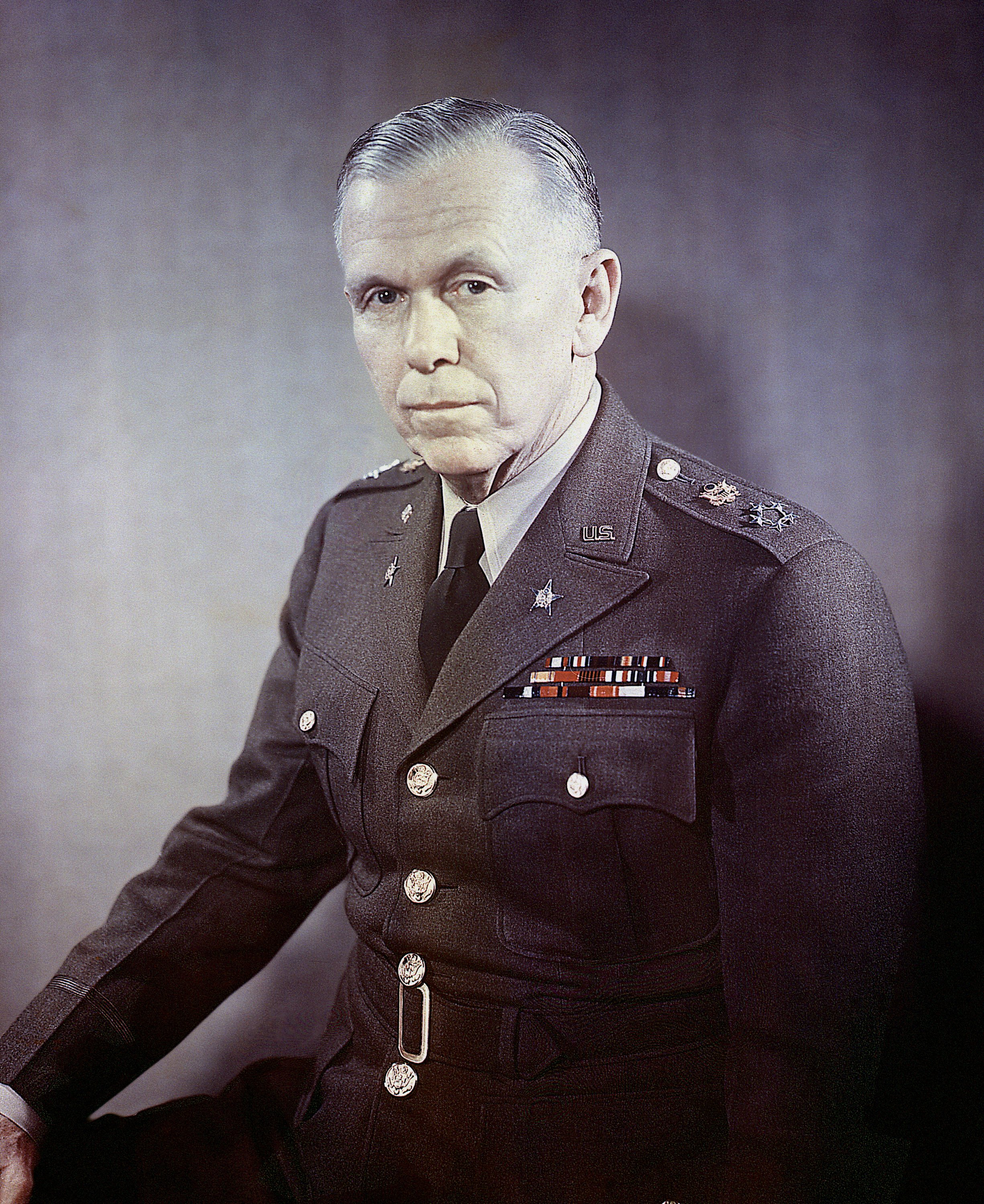 Full Description: This is a portrait of General George C. Marshall in Army uniform. The Marshall Space Flight Center, a NASA field installation, was established in Huntsville, Alabama, in 1960. The Center was named in honor of General George C. Marshall, the Army Chief of Staff during World War II, Secretary of State, and Nobel Prize Wirner for his world-renowned Marshall Plan. Image # MSFC-9700811